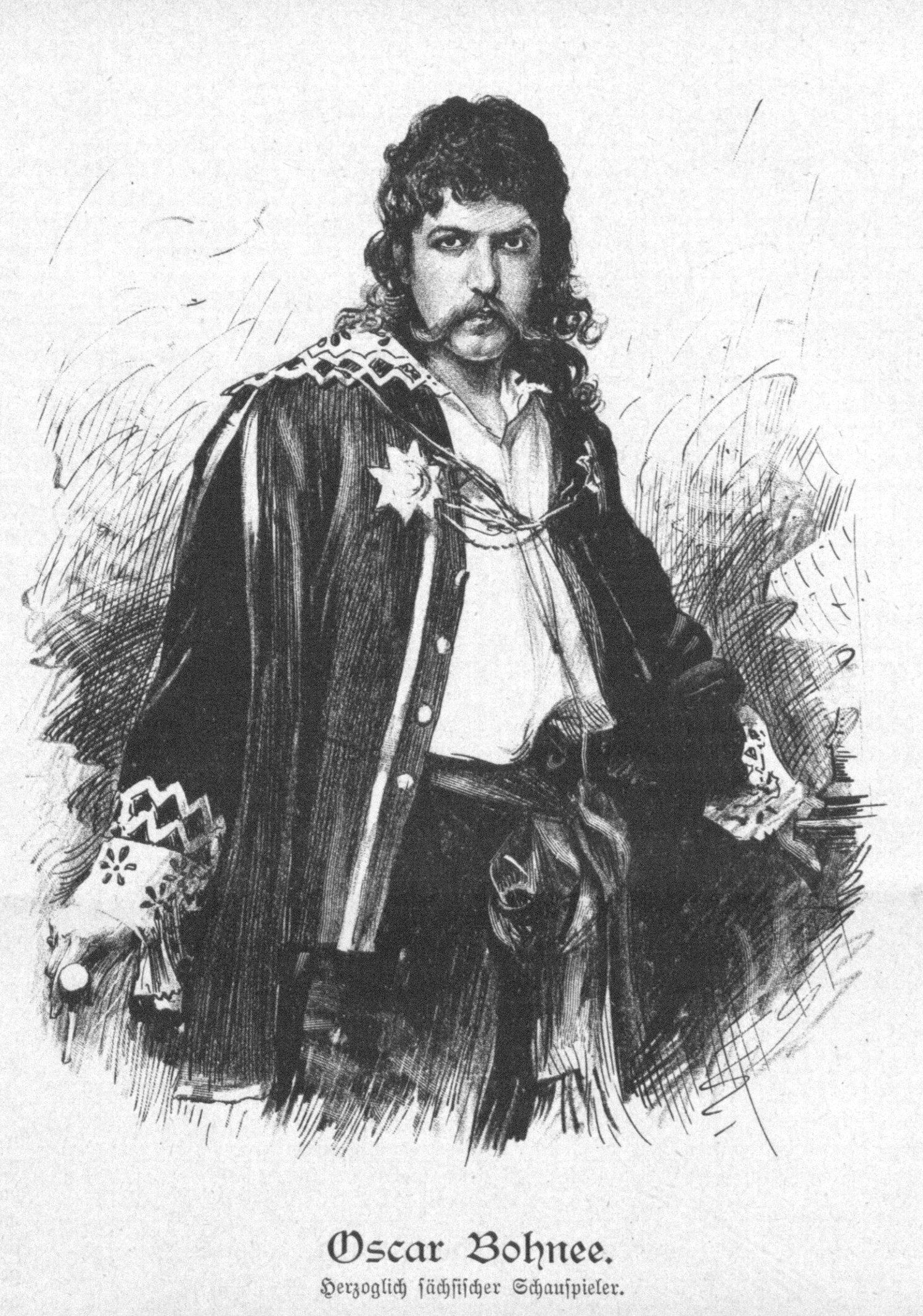 Portrait of Oskar Bohnée (1862-??), German actor.